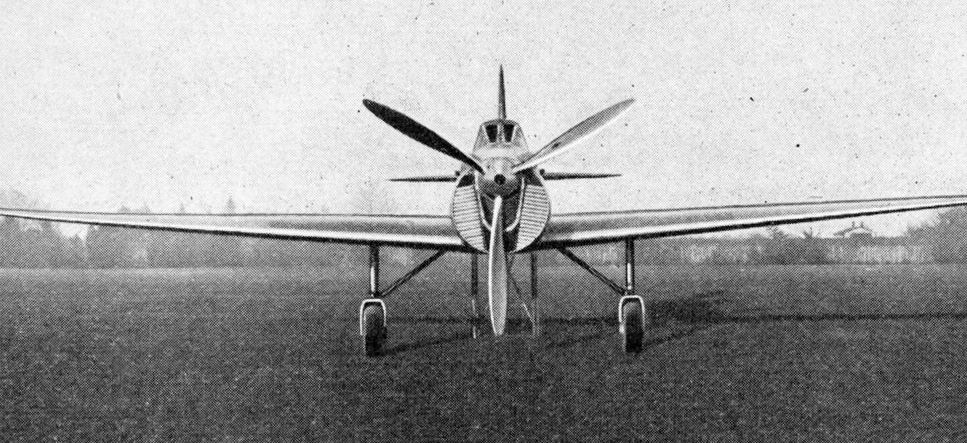 Dewoitine D.513 photo from Le Pontentiel Aérien Mondial 1936